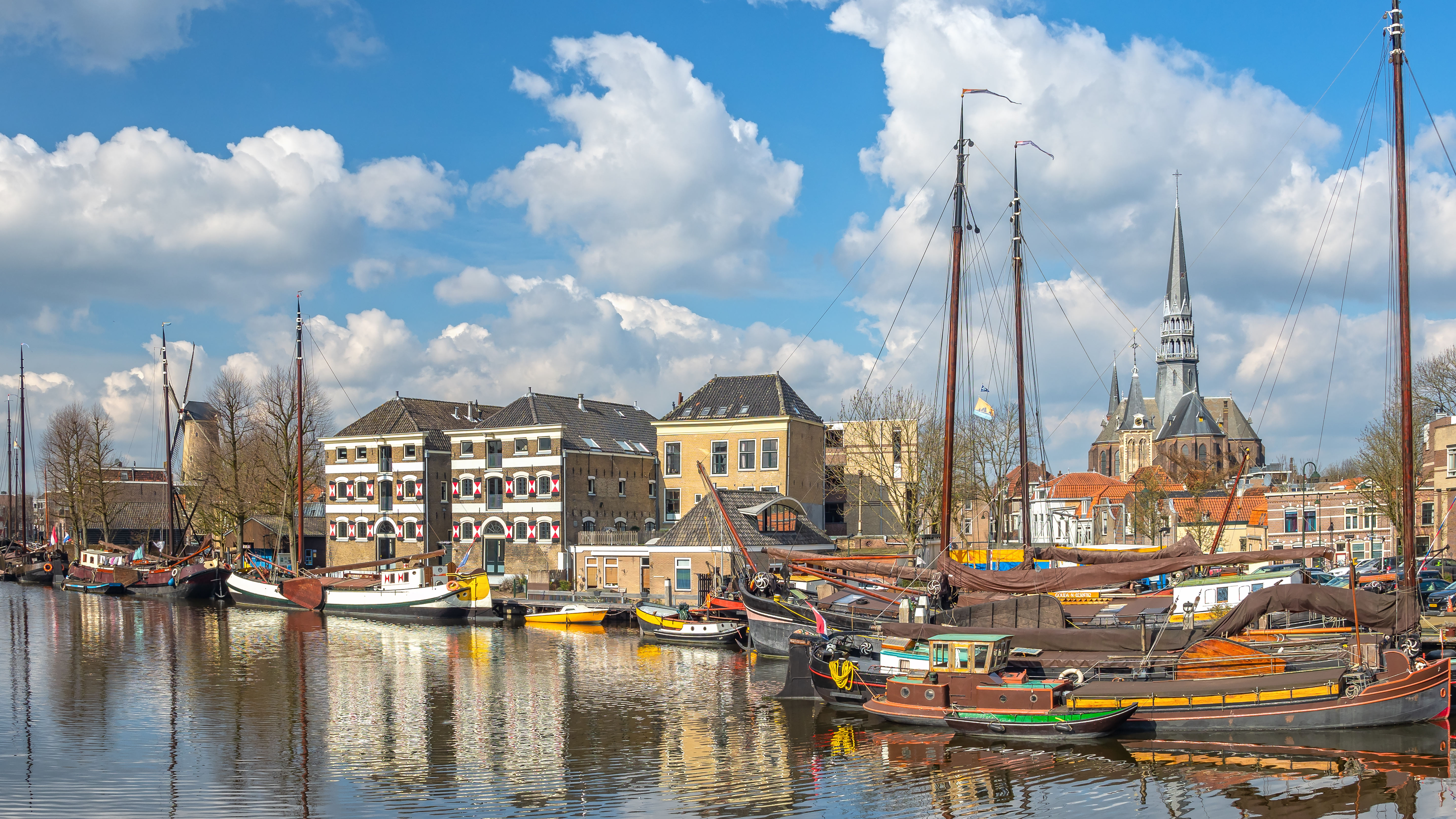 Met links o.a. de twee voormalige kaaspakhuizen van J. de Zwet en Zonen. Rechts in beeld, de Gouwekerk. Foto gemaakt nabij de Mallegatsluis. Dit is een schutsluis met hefdeuren tussen de Hollandsche IJssel en de Turfsingel, een van de singels die rondom de Nederlandse stad Gouda liggen.